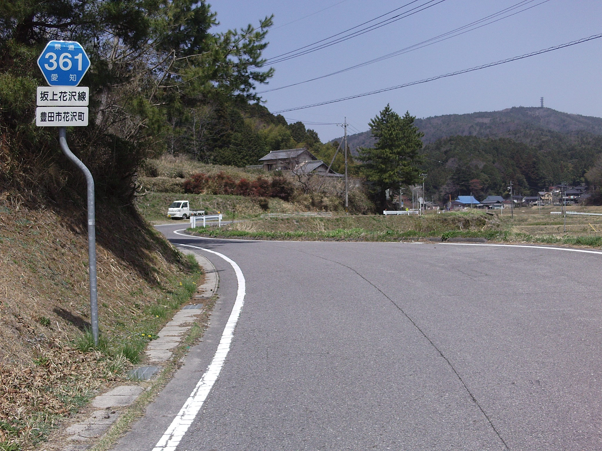 Aichi prefectural road No.361 in Hanazawacho, Toyota, Aichi.